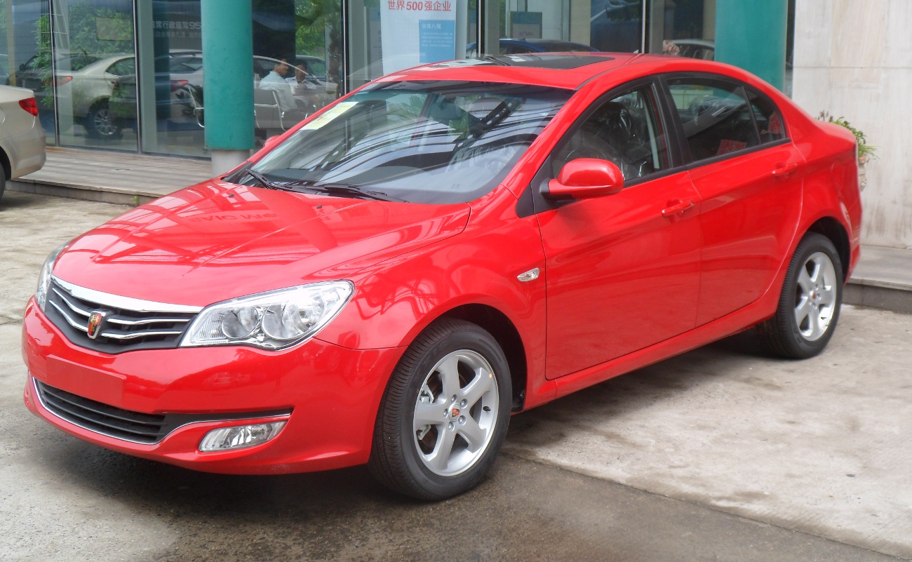 Roewe 350 facelift photographed in Shanghai, China.